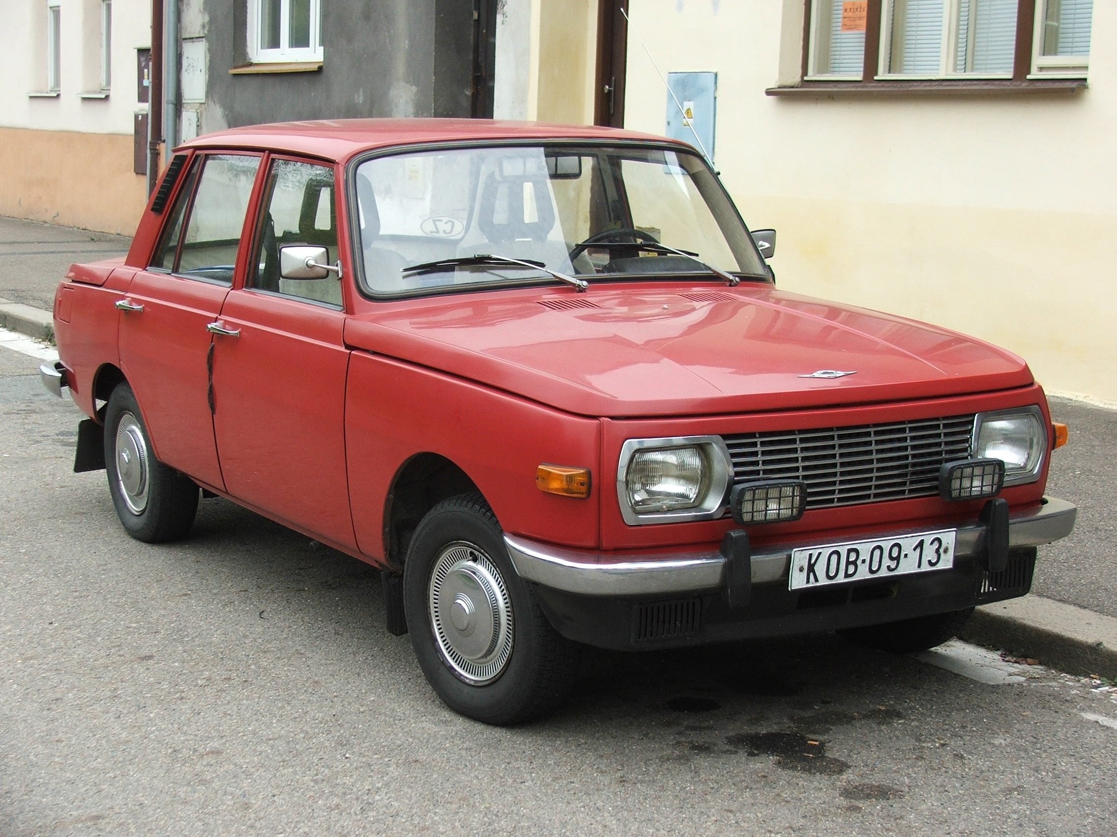 An exemple of well preserved Wartburg Car in the streets of Kolín in Czechia.